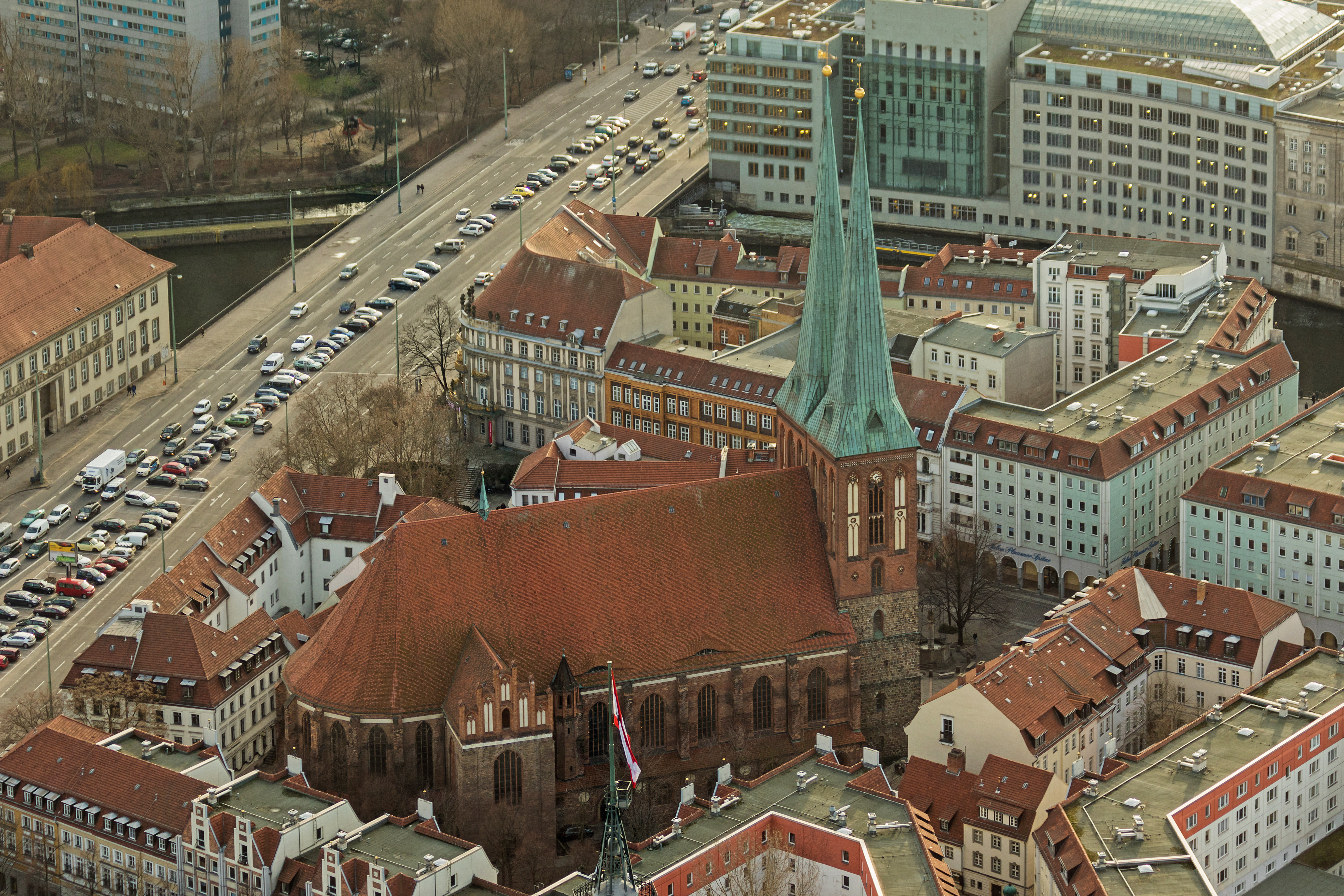 View from Berlin TV Tower on St. Nicholas Church